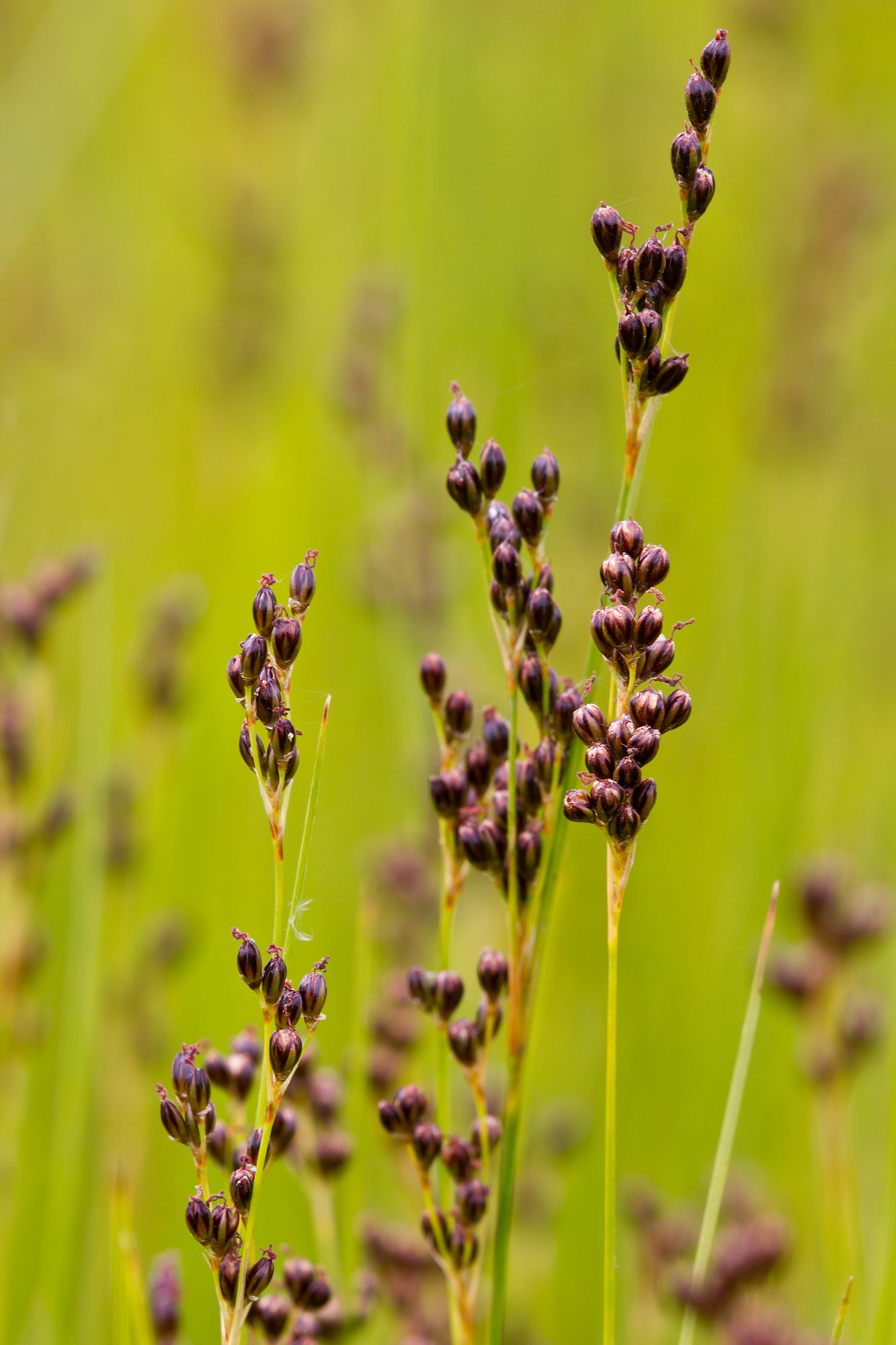 Inflorescences of the salt-tolerant rush Juncus gerardii.